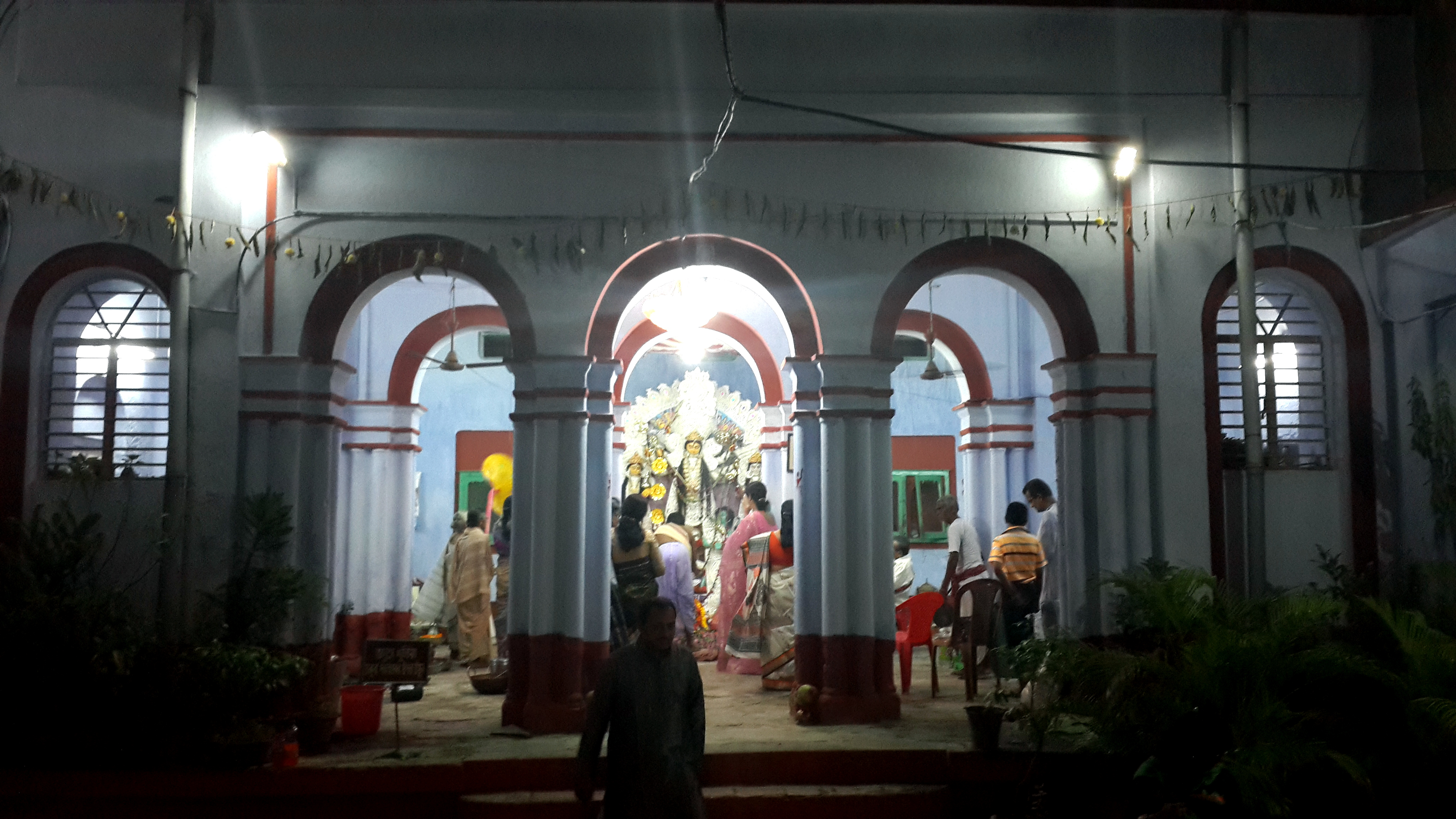 The durga puja of Ukil bari is over 100 years old. This place is known to many, especially to the people of Chatra, Serampore.